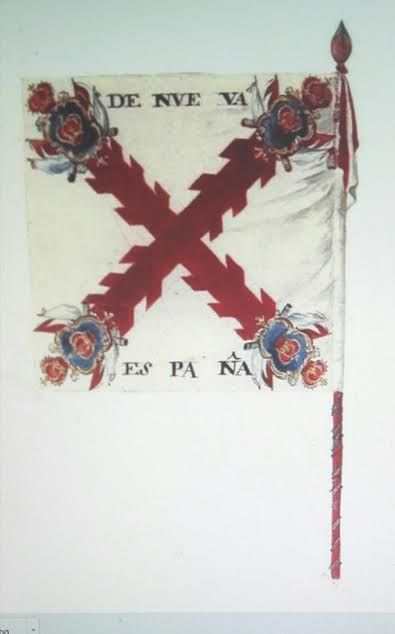 Spanish Flag of Regiment of the Crown of New Spain, 1769.